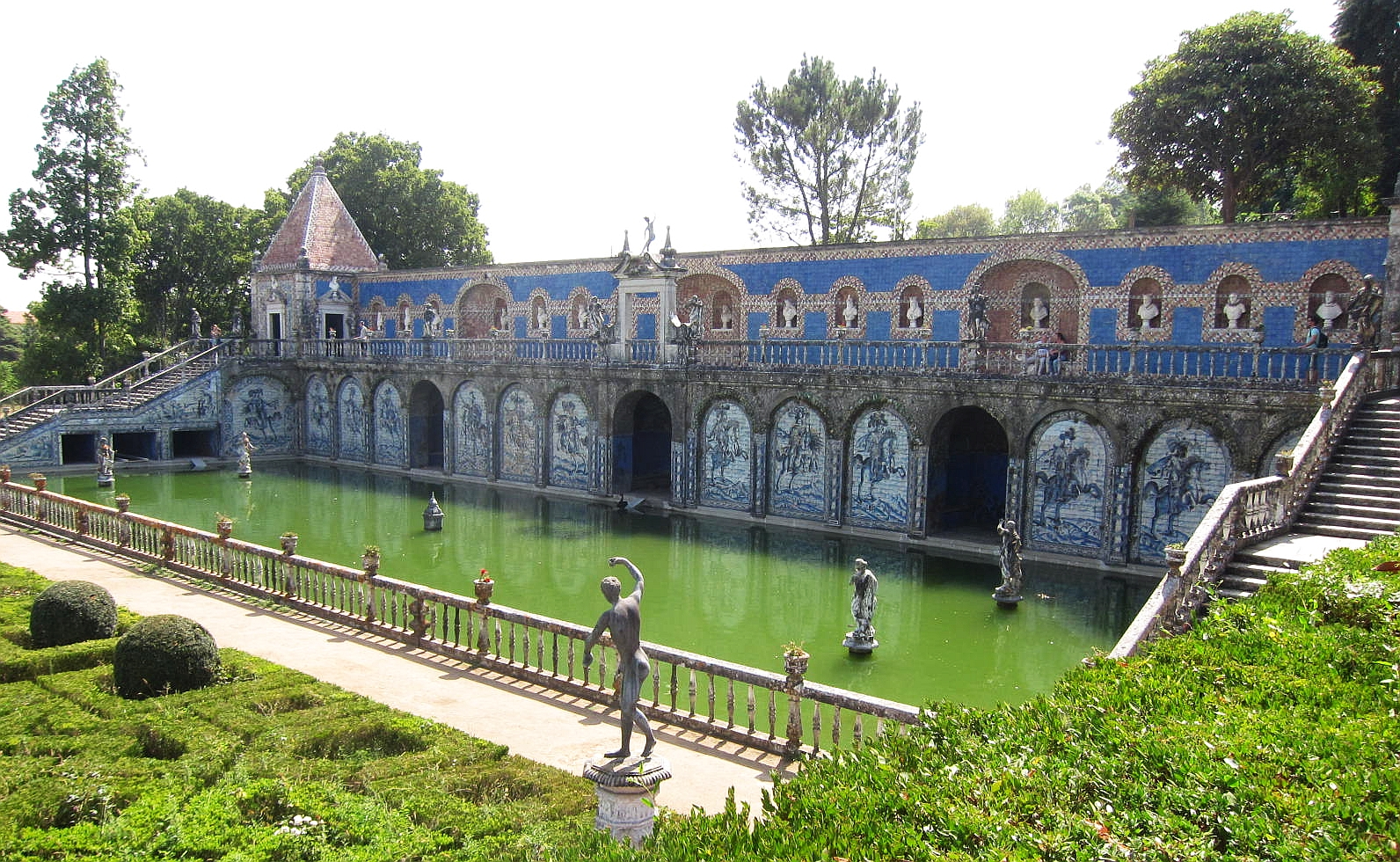 The Tank of the Knights in the gardens of the Marquesses of Fronteira palace, Lisbon.